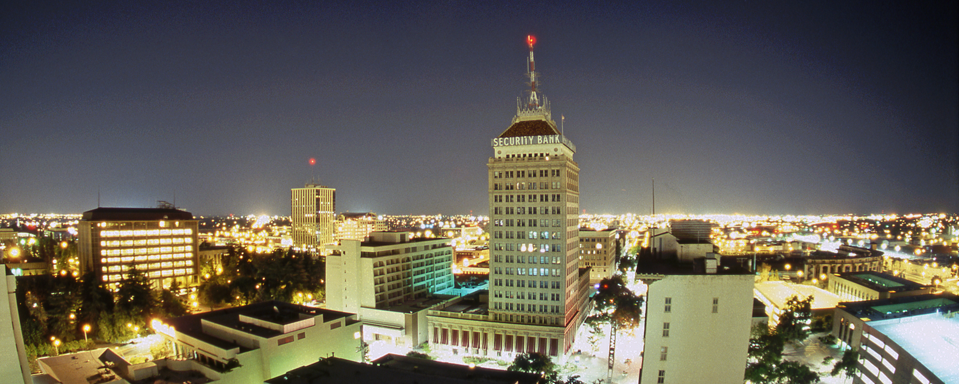 Downtown Fresno at night